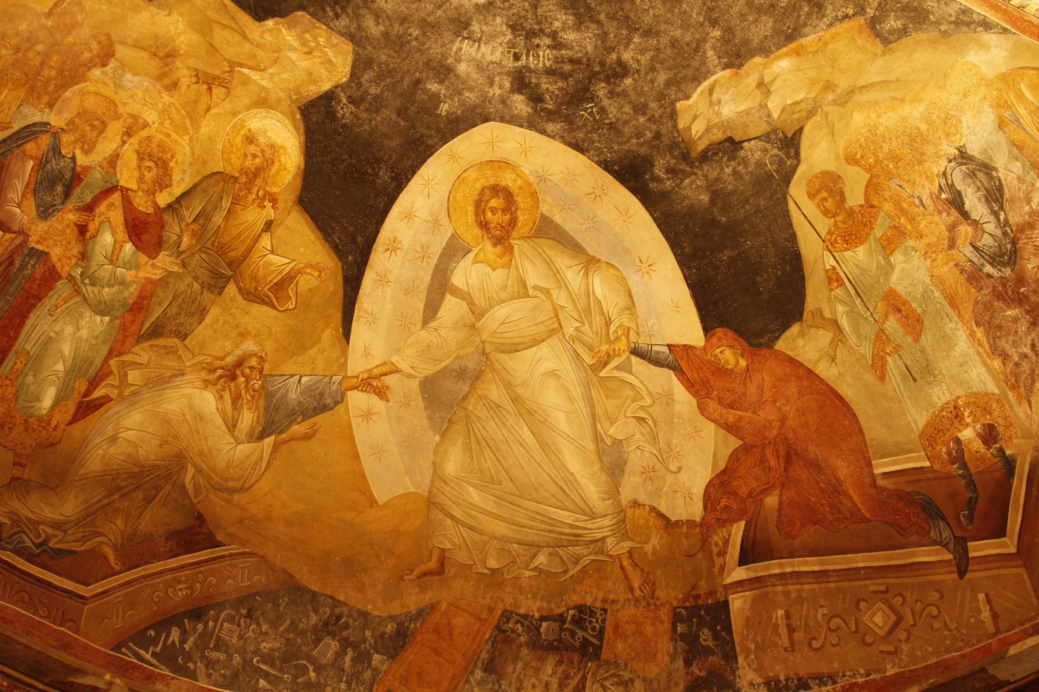 Late Byzantine fresco of the Harrowing of Hell (Anastasis), Chora Church in Constantinople (modern Istanbul).